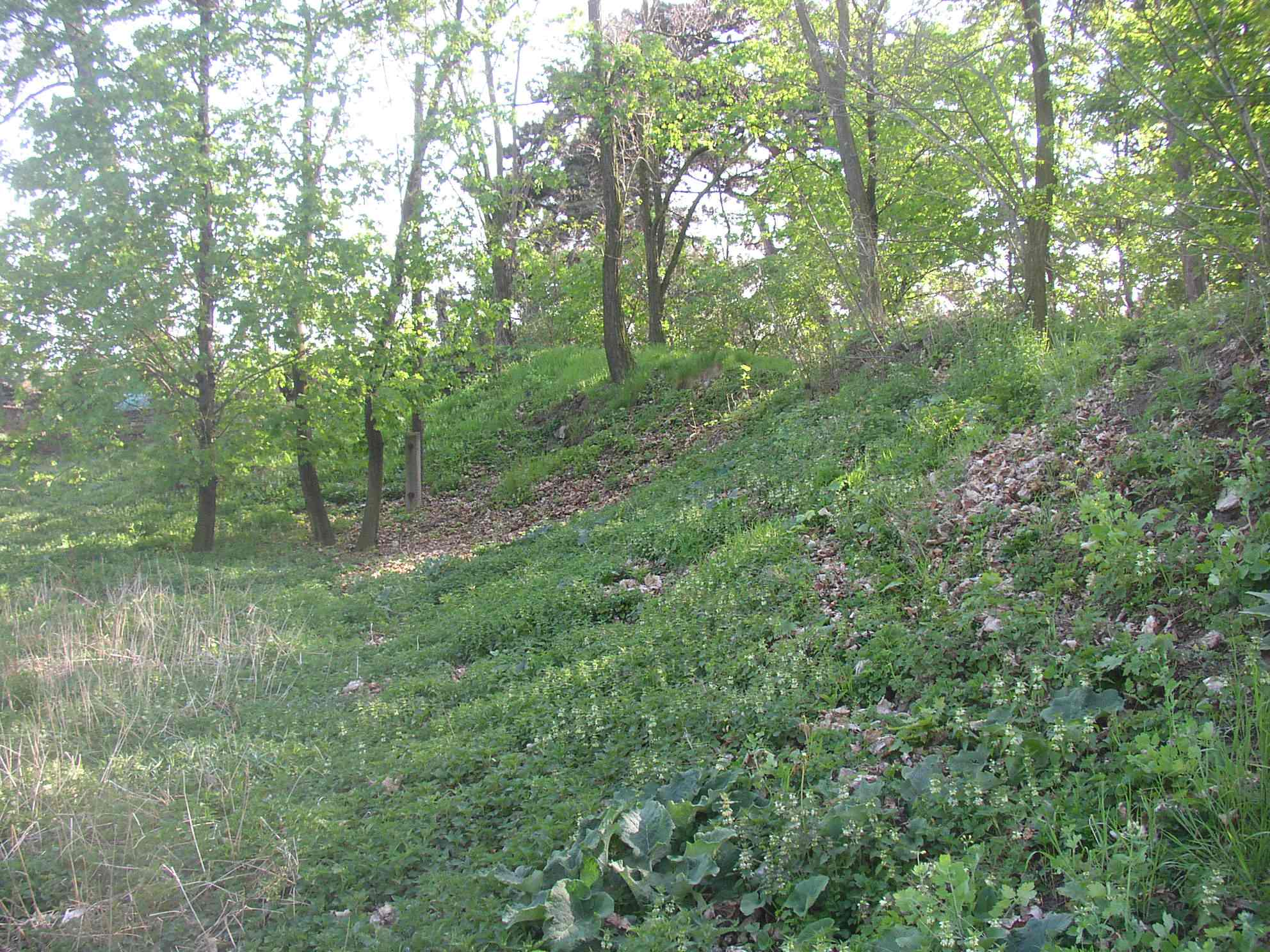 Remains of fortification between inner and outer part of Levý Hradec, Roztoky, Prague-West District, Czech Republic. A view from the inner side. Photo taken by Miaow Miaow in May 2005, PD-self